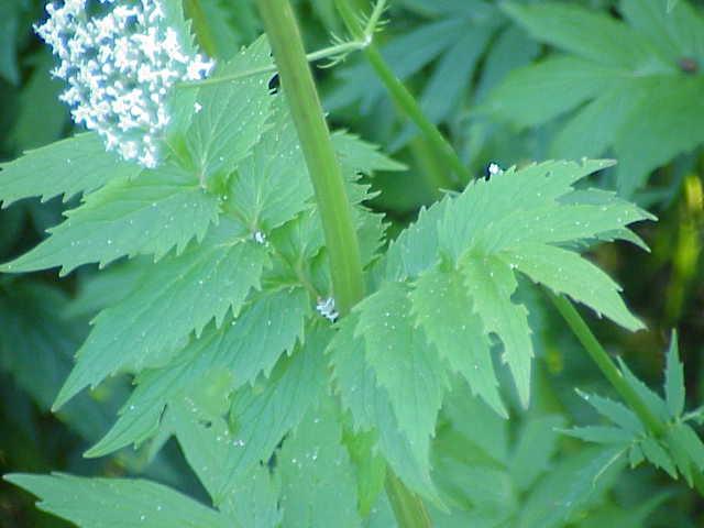 Species: Valeriana officinalis Family: Valerianaceae Image No. 1